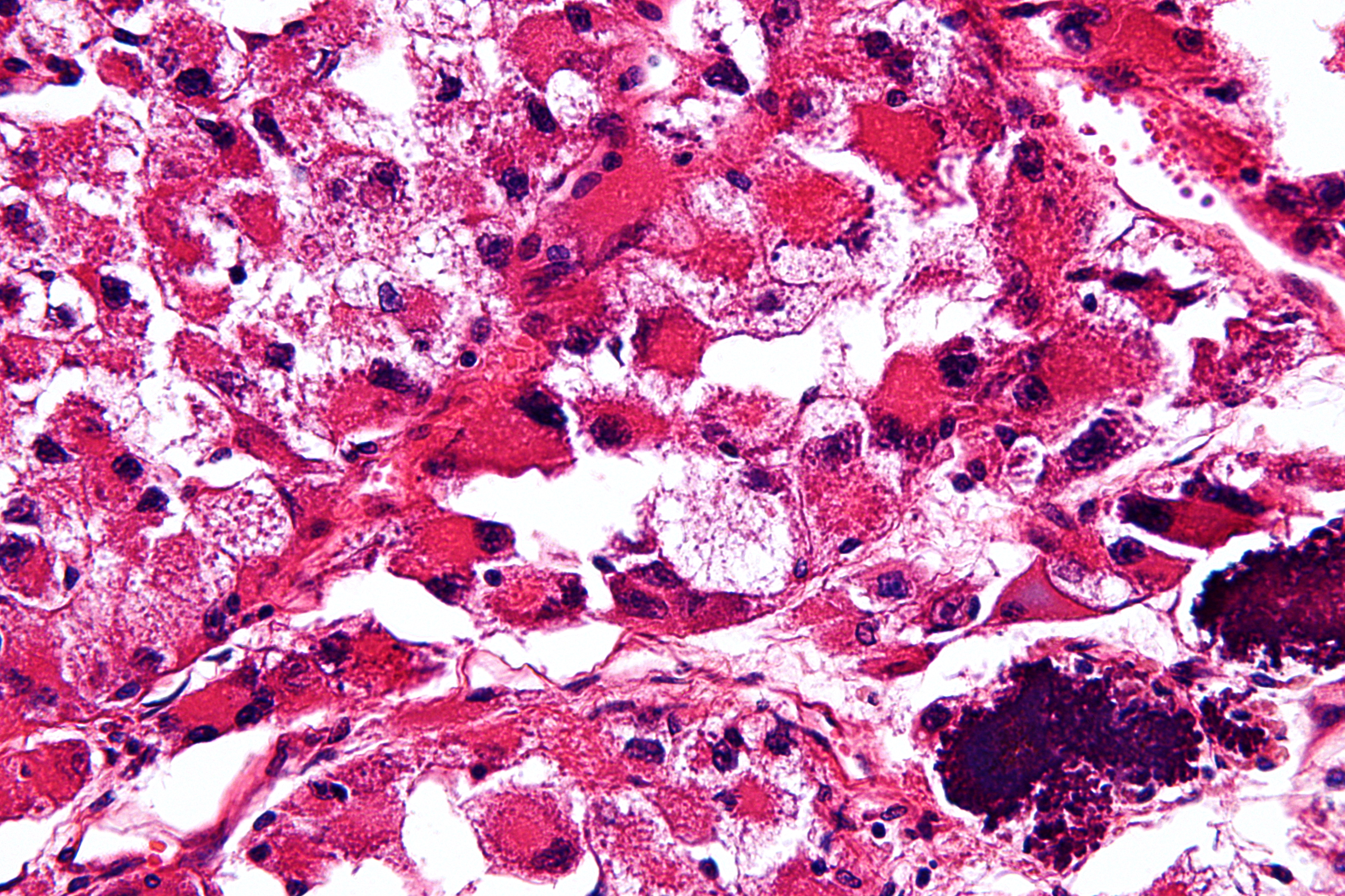 Very high magnification micrograph of an alveolar soft part sarcoma, commonly abbreviated ASPS. H&E stain. The images show characteristic features of ASPS: An alveolar/nested architecture. Cells with: Abundant eosinophilic cytoplasm. An eccentric nucleus. Calcification. Related images Very low mag. Low mag. Intermed. mag. High mag. Very high mag. Very high mag.